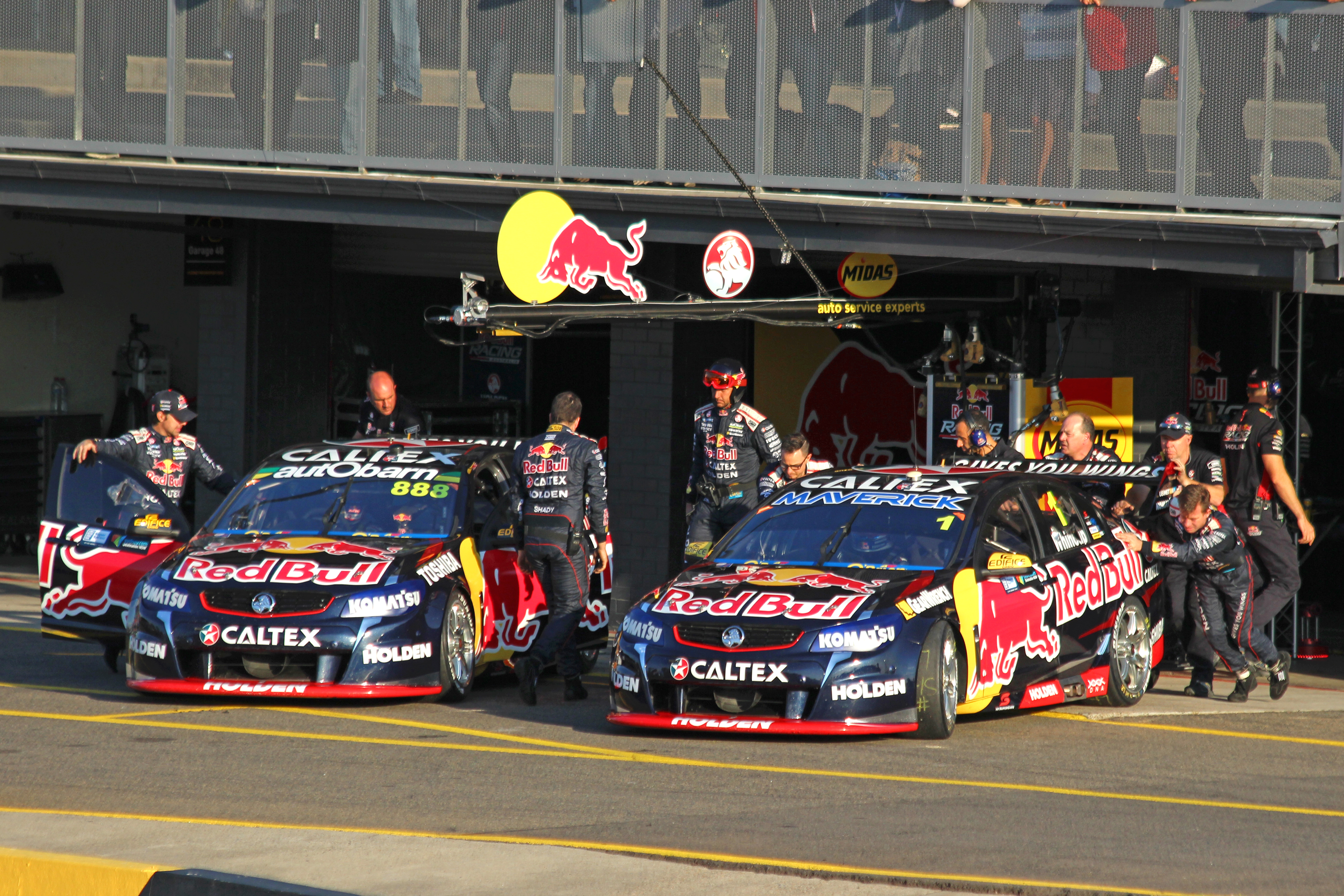 Triple Eight Race Engineering prepare the cars of Jamie Whincup and Craig Lowndes prior to the second race of the 2015 Sydney Motorsport Park Super Sprint.